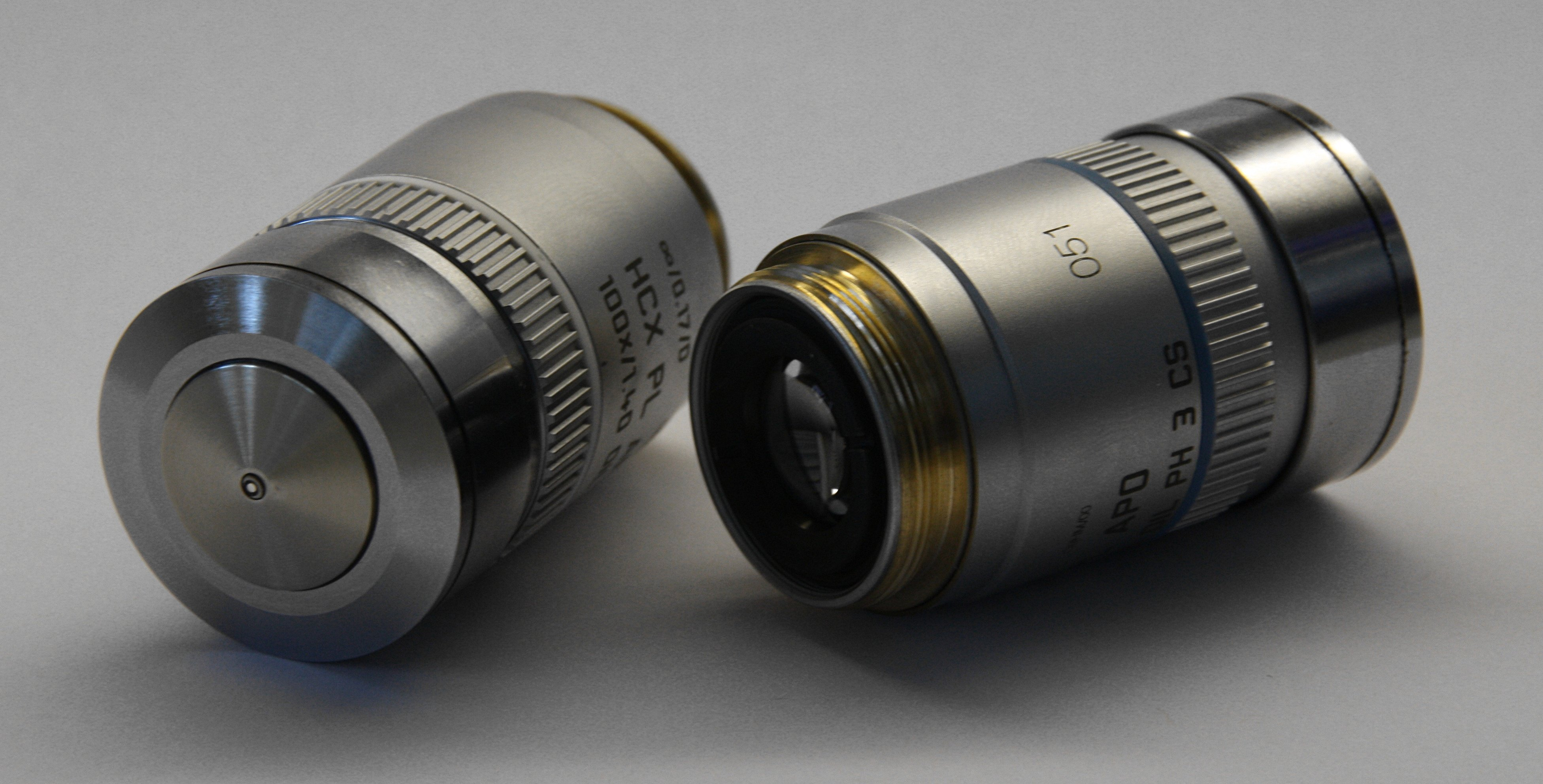 Two Leica oil-immersion epifluorescence microscope phase contrast lenses. Left view of the sample-facing side of a 100x objective lens. Right camera/occular-facing side of a 40x objective lens.